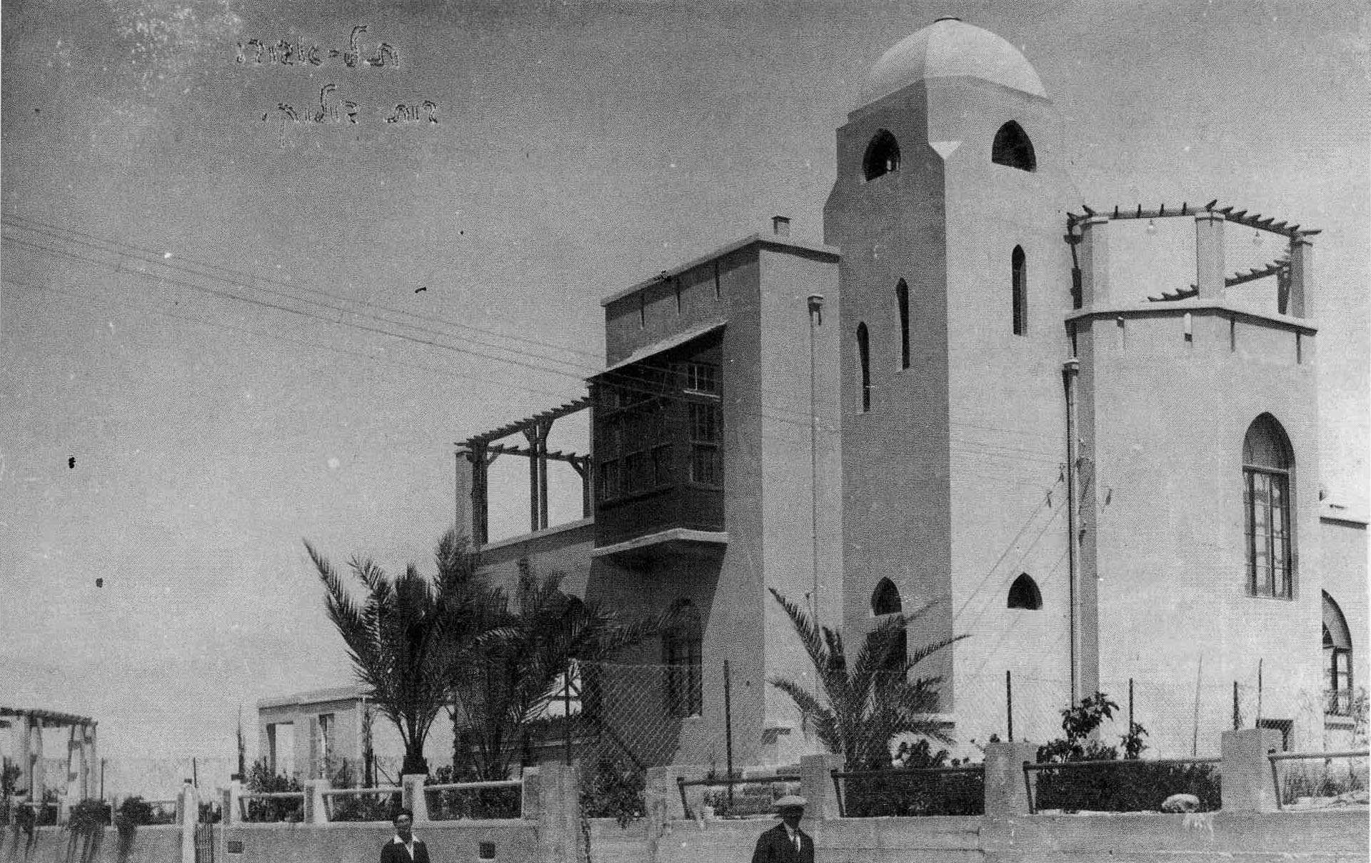 Beit Bialik, mid 1920.